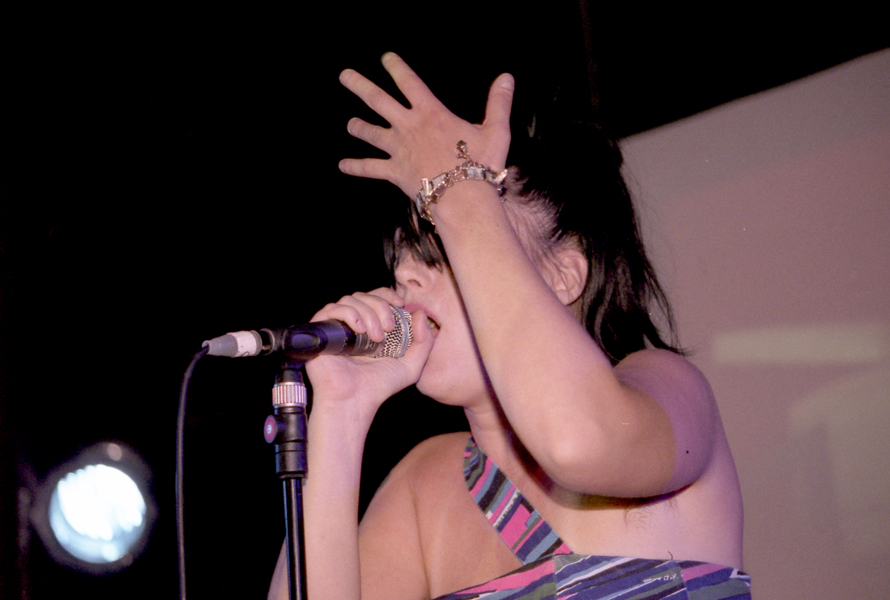 Le Tigre member Kathleen Hanna performing live.